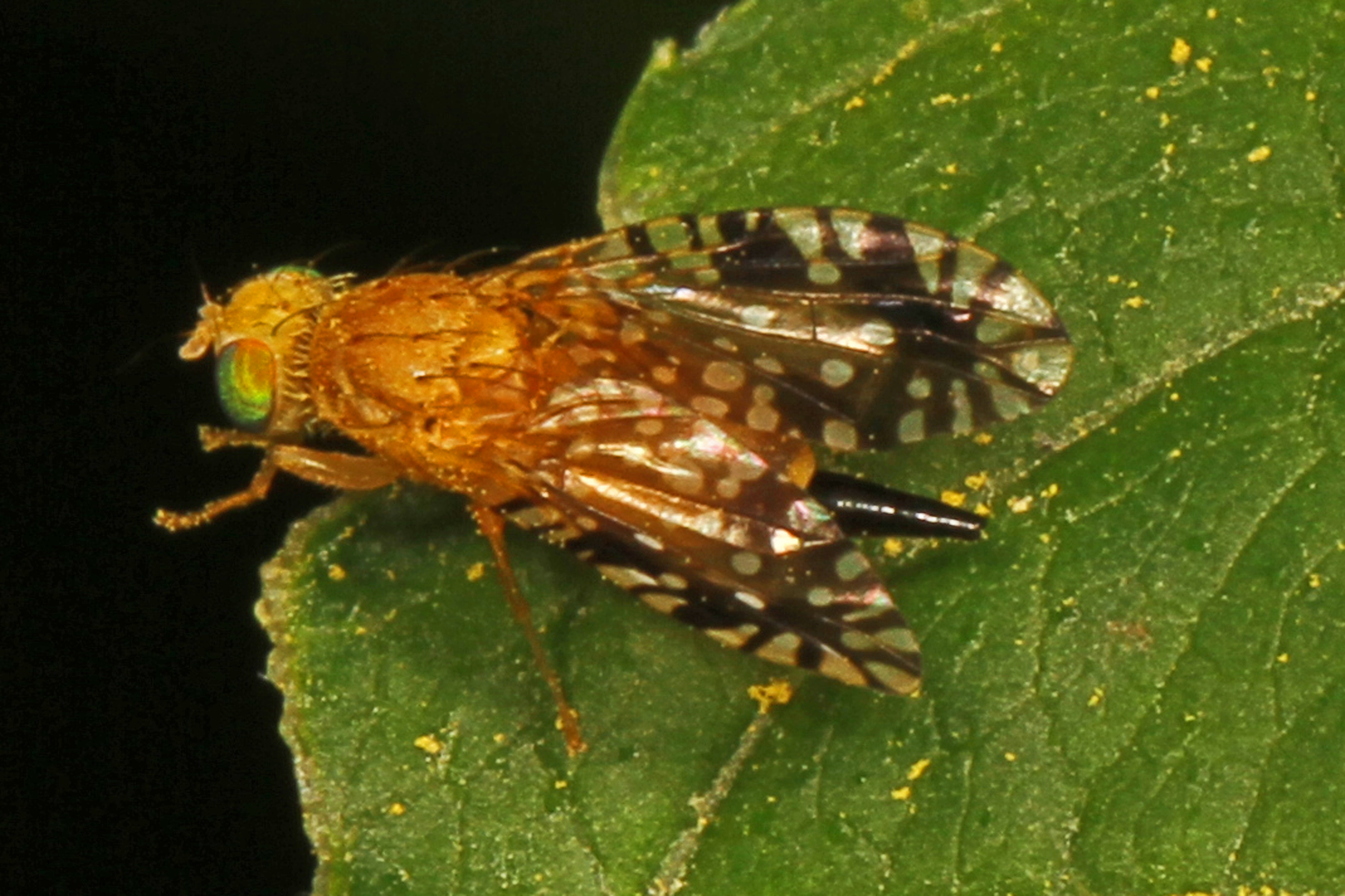 Fruit Fly - Euaresta festiva, Backus Woods, Walsingham, Ontario.